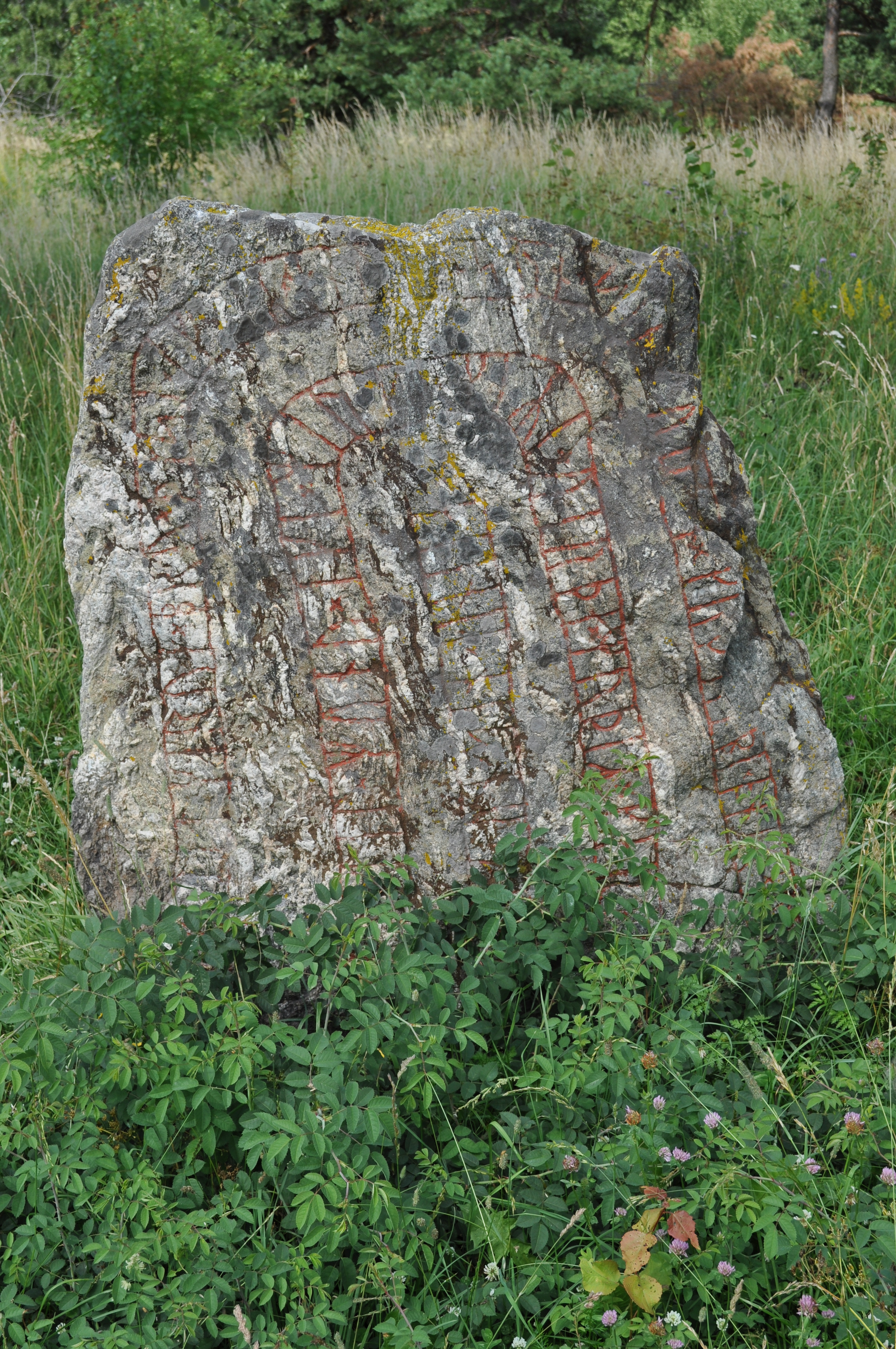 the runestone at Eggeby, Stockholm, Sweden